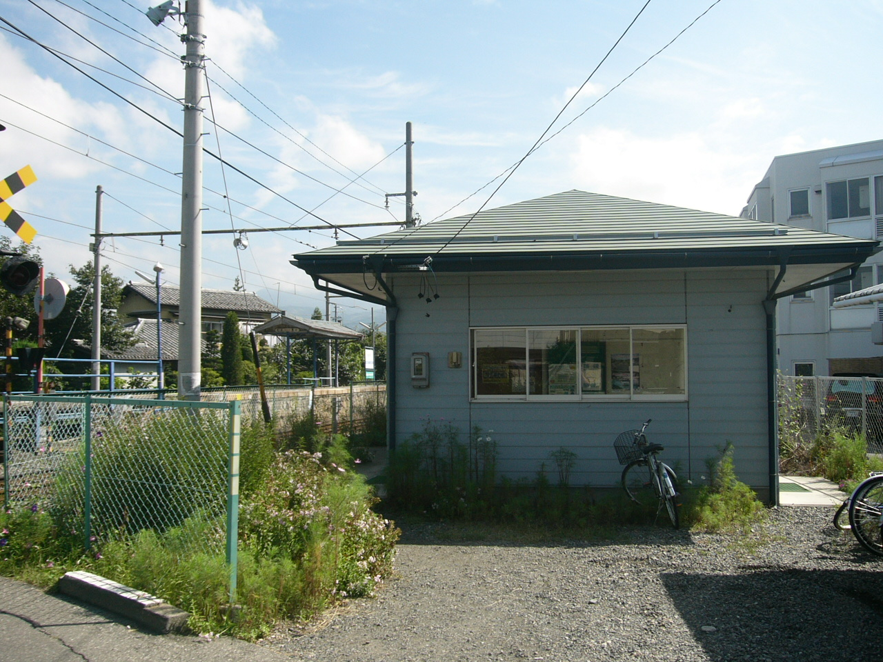 Shinanoarai Station